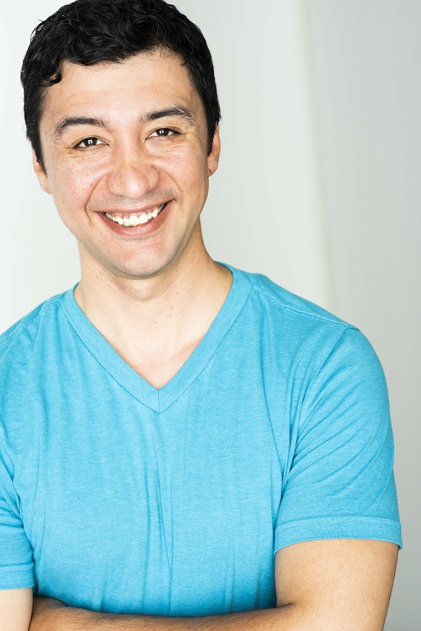 Ernie Rivera:Photo by Kevin McIntyre